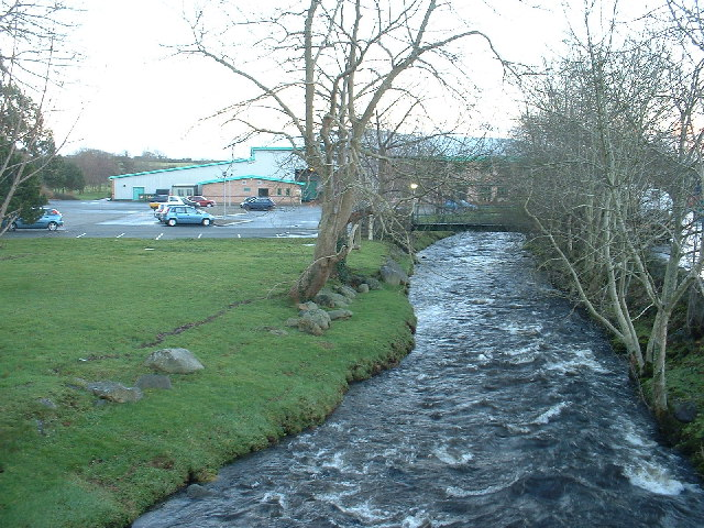 Caernarfon Creamery. Situated on both banks for the Afon Erch.